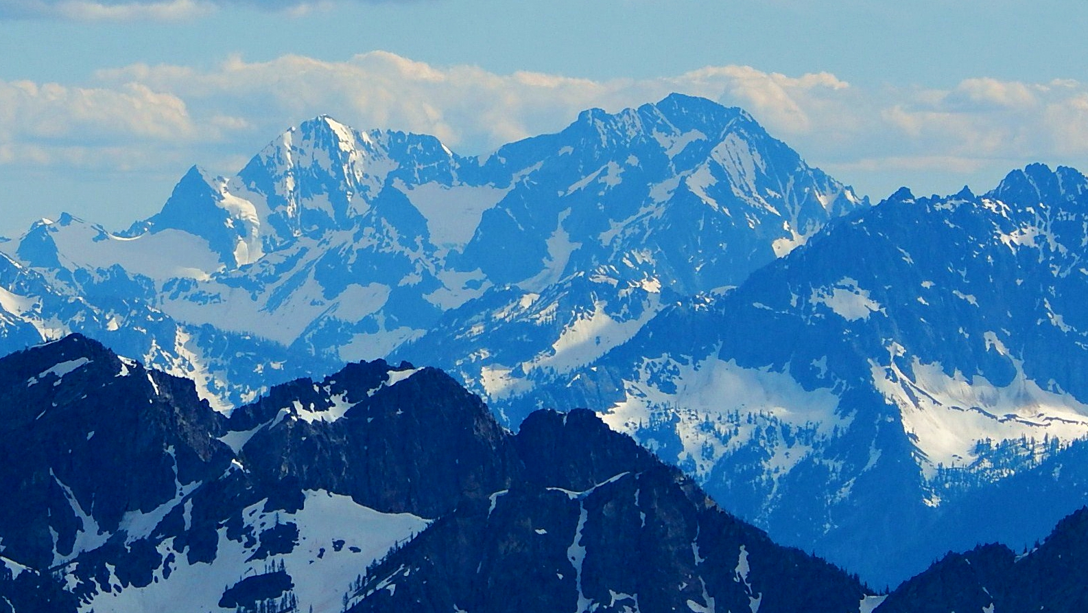 Wallaby Peak summit view. June 27, 2016 North Cascades. Annotations for Mts Maude and Fernow